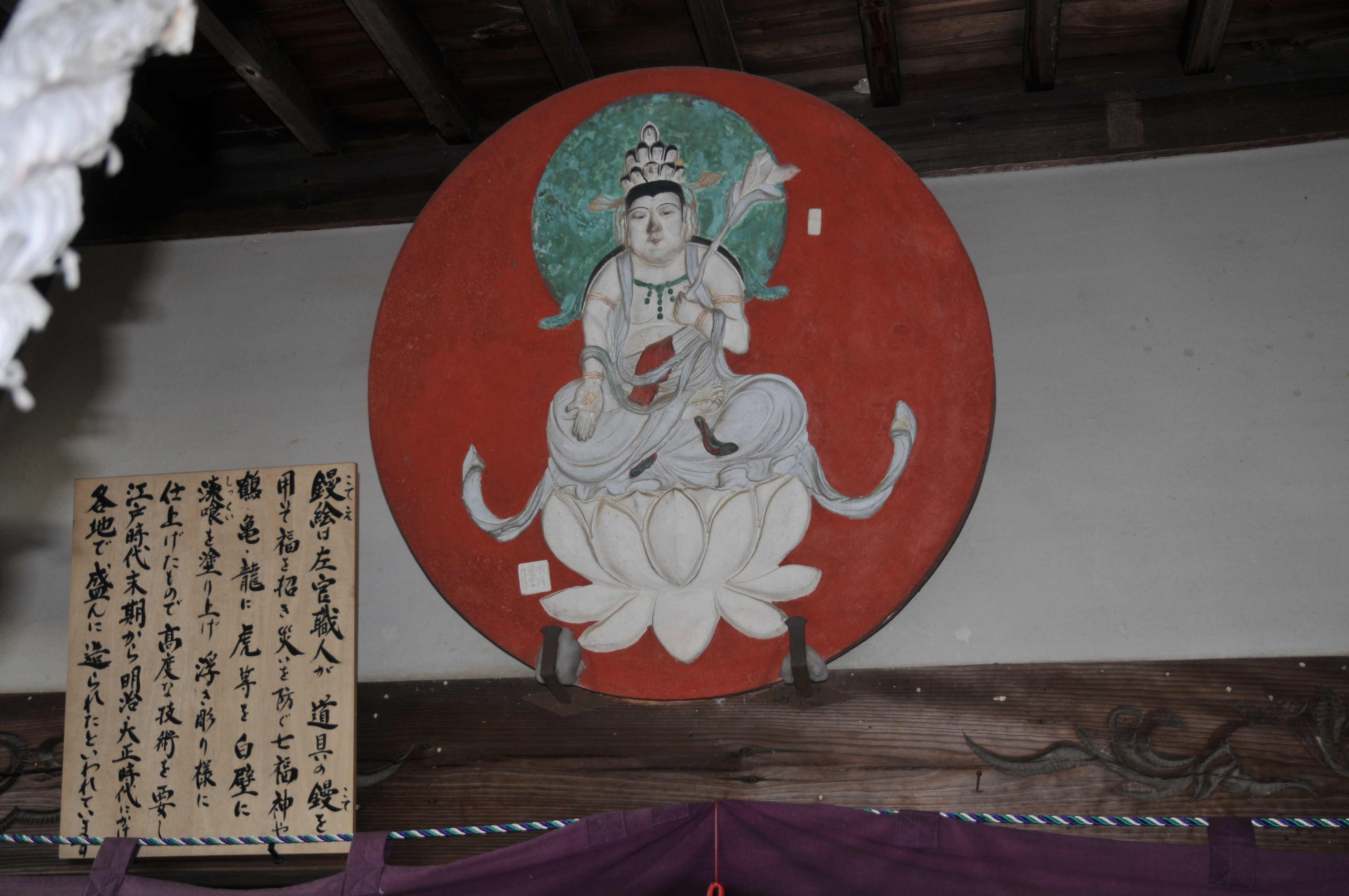 Kote-e relief, Ryūsen-ji